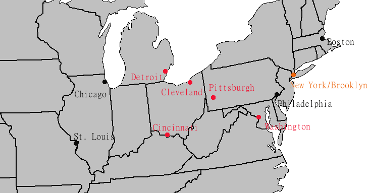 Teams in the National League and the American League from 1903-1953. Orange indicates that the city had three teams, black indicates the city had two teams, and red indicates the city had one team.